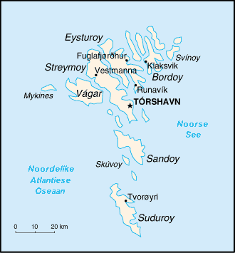 An Afrikaans map of the Faroe Islands.